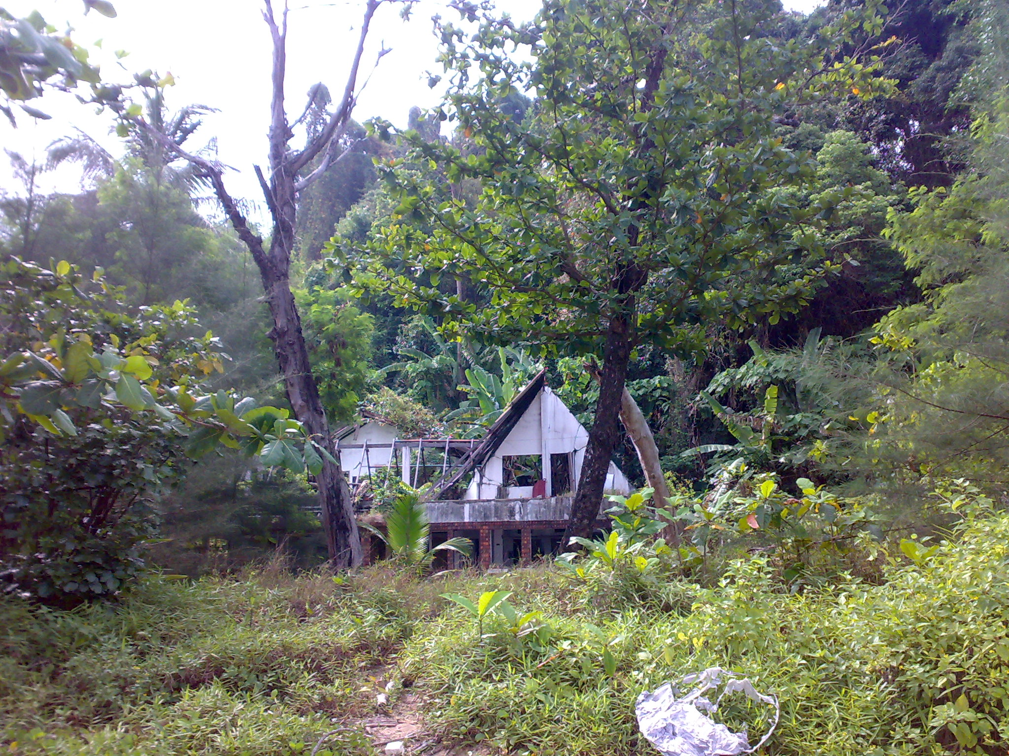 Khao Lak, deserted house at the beach, left to nature after tsunami